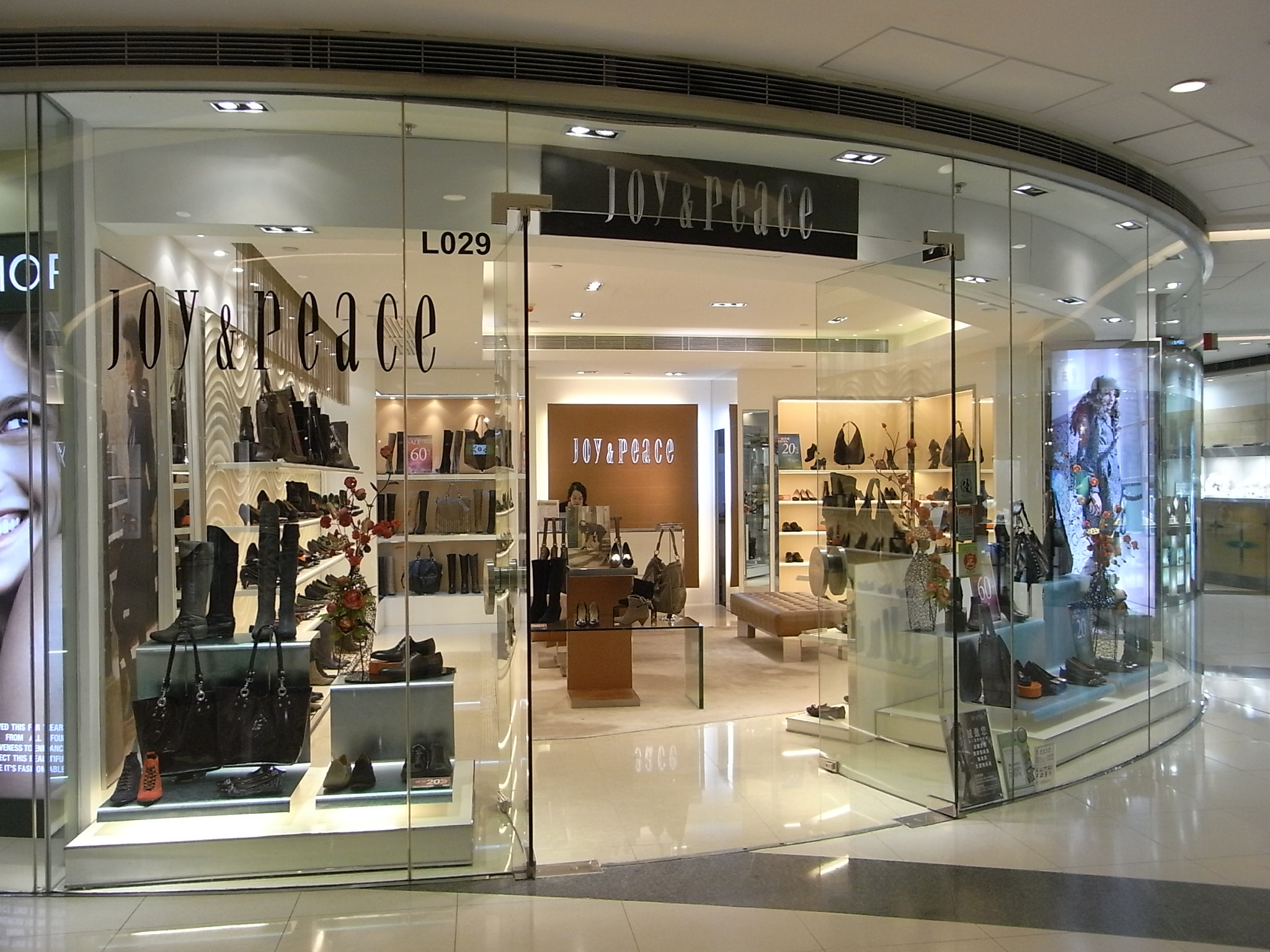 尖沙咀 百麗國際 新世界中心